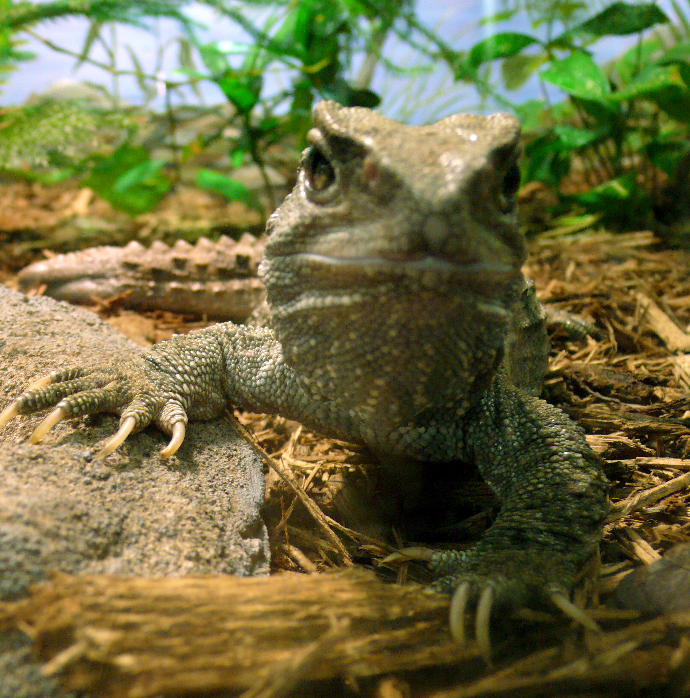 Tuatara (Sphenodon punctatus)